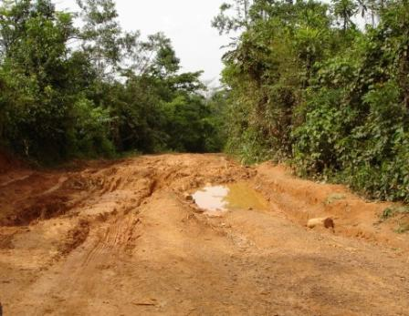 road in Liberia, from Monrovia to Lofa county, in the dry season